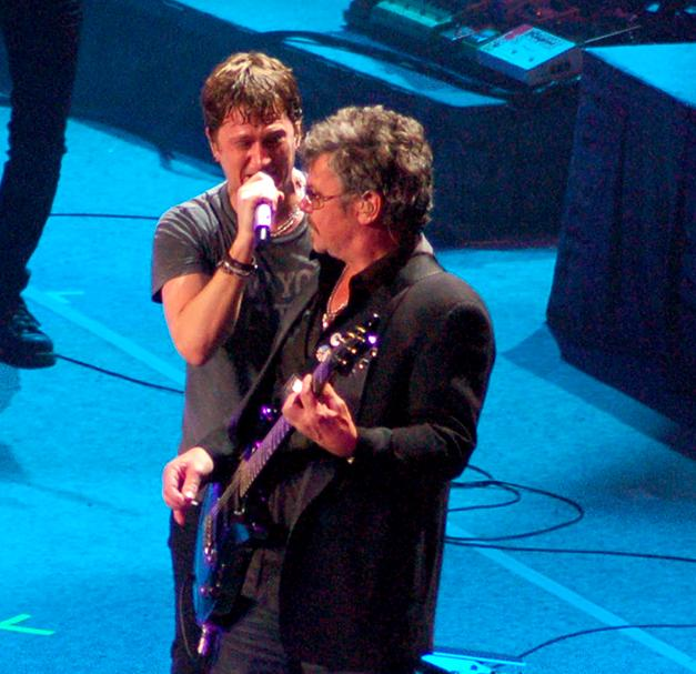 Rob Thomas of Matchbox Twenty and Tim Farriss of INXS.